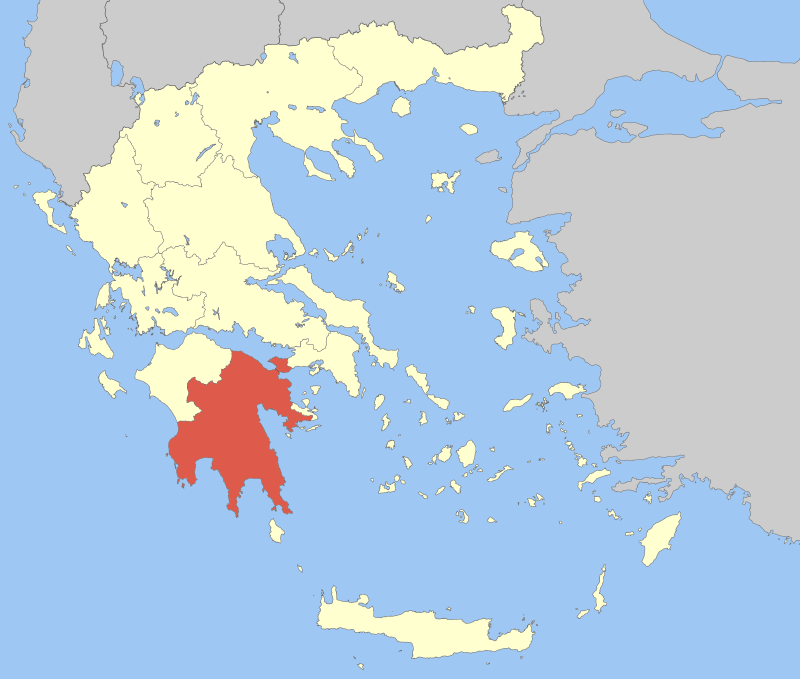 Locator Map of Peloponnese Periphery, Greece